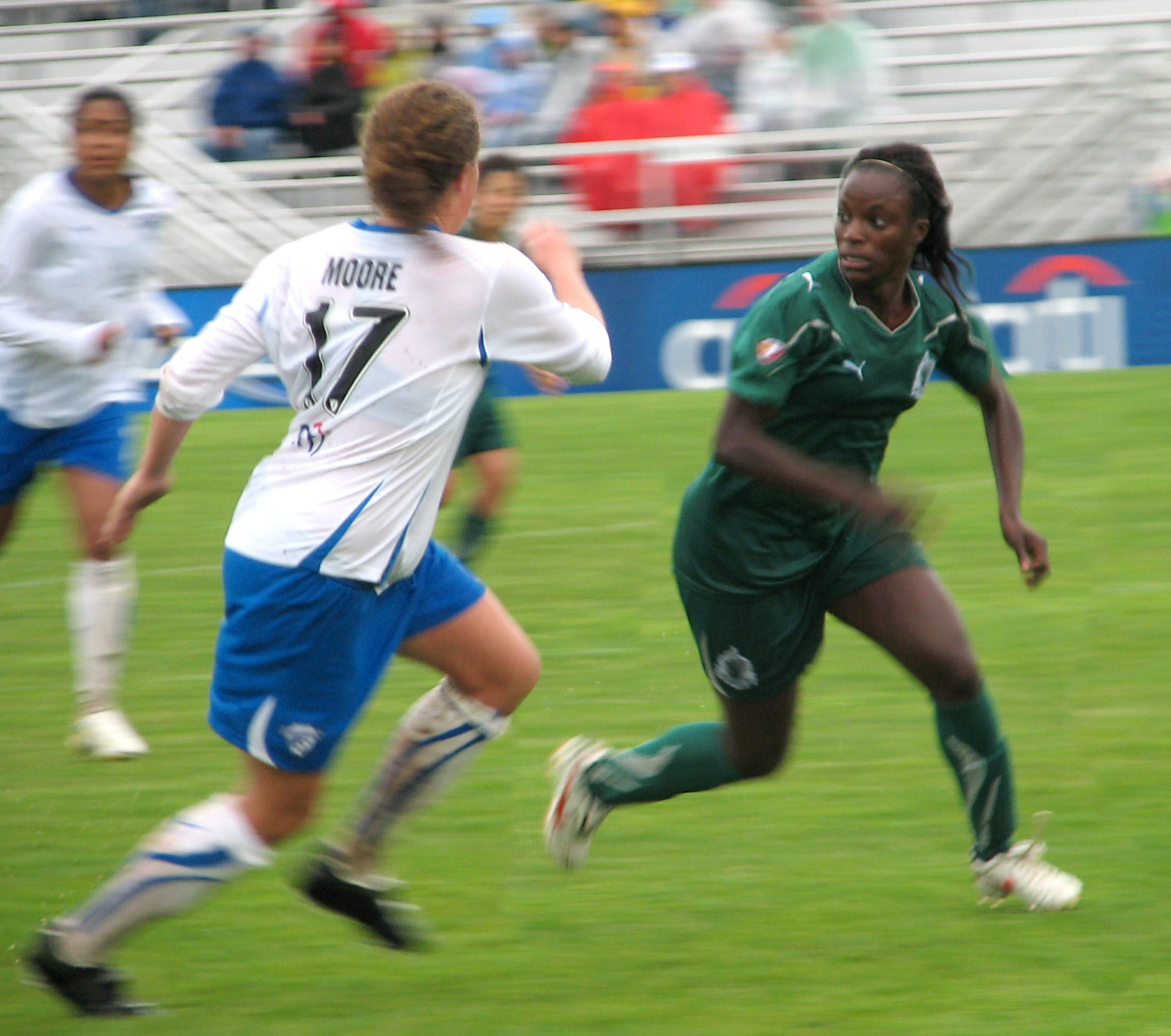 Eniola Aluko of the (WPS) Womens Professional Soccer Club, St.Louis Athletica.